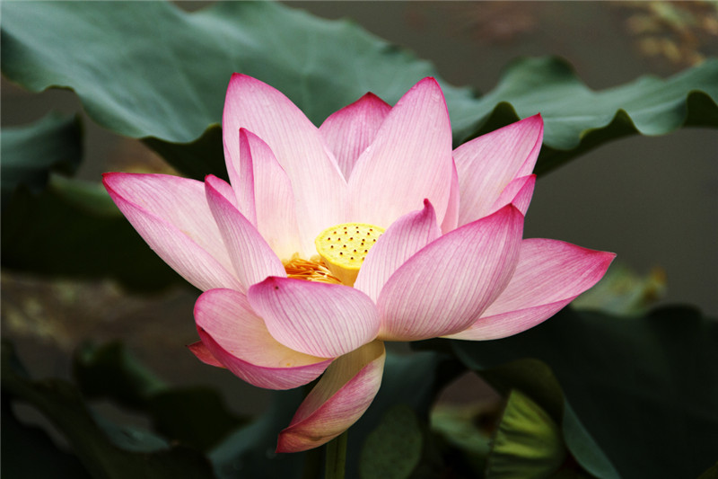 Family: Nymphaeaceae Genus: Nelumbo Origin: Tropical Asia and Queensland, Australia Diameter of Flower: 10 ~ 20 cm Height: 10 ~ 150 cm(above water)* Life cycle: perennial Bloom Time: Jun. ~ Aug.